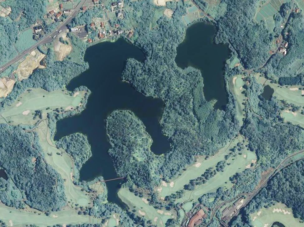 Jaike (left) and Hasuike (right / Izumo, Shimane).